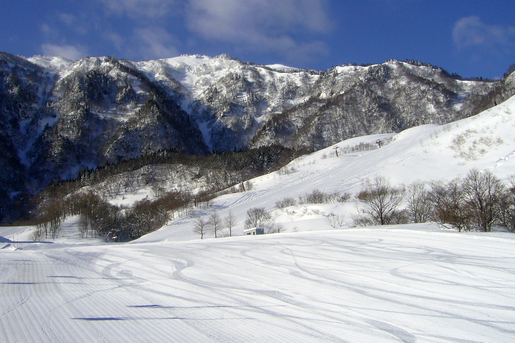 Mt.Hyonosen, Hyonosen International Ski resort in Yabu, Hyogo prefecture, Japan